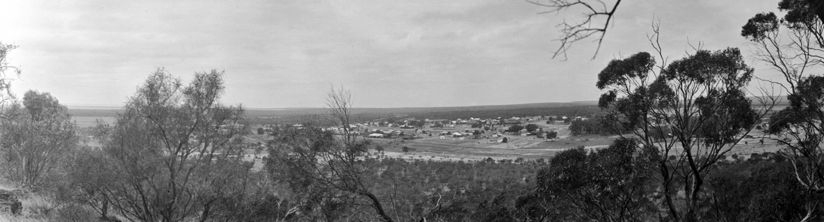 View looking towards Mingenew, Western Australia from a hill overlooking the town